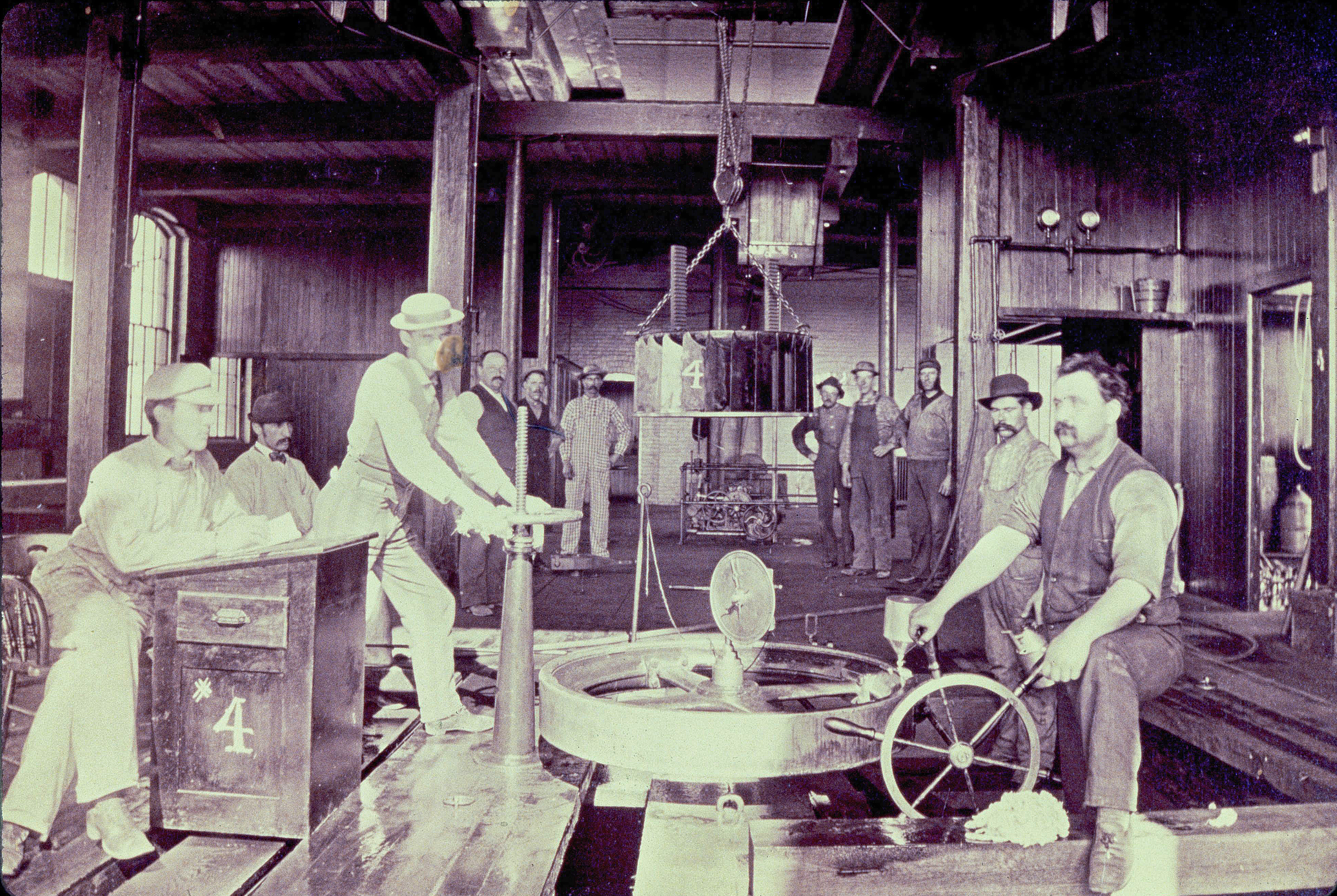 Workers at the ready to set up efficiency tests on a water turbine at the Holyoke Testing Flume. From other photos with known dates this appears to have been certainly after 1888 and sometime before 1900, most likely in the 1890s.